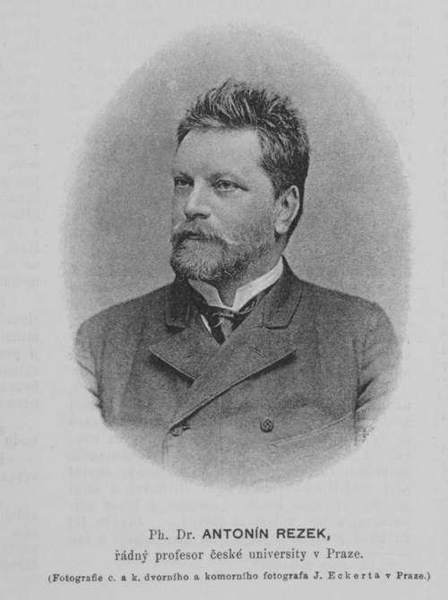 Portrait photograph of Antonín Rezek, professor of history.